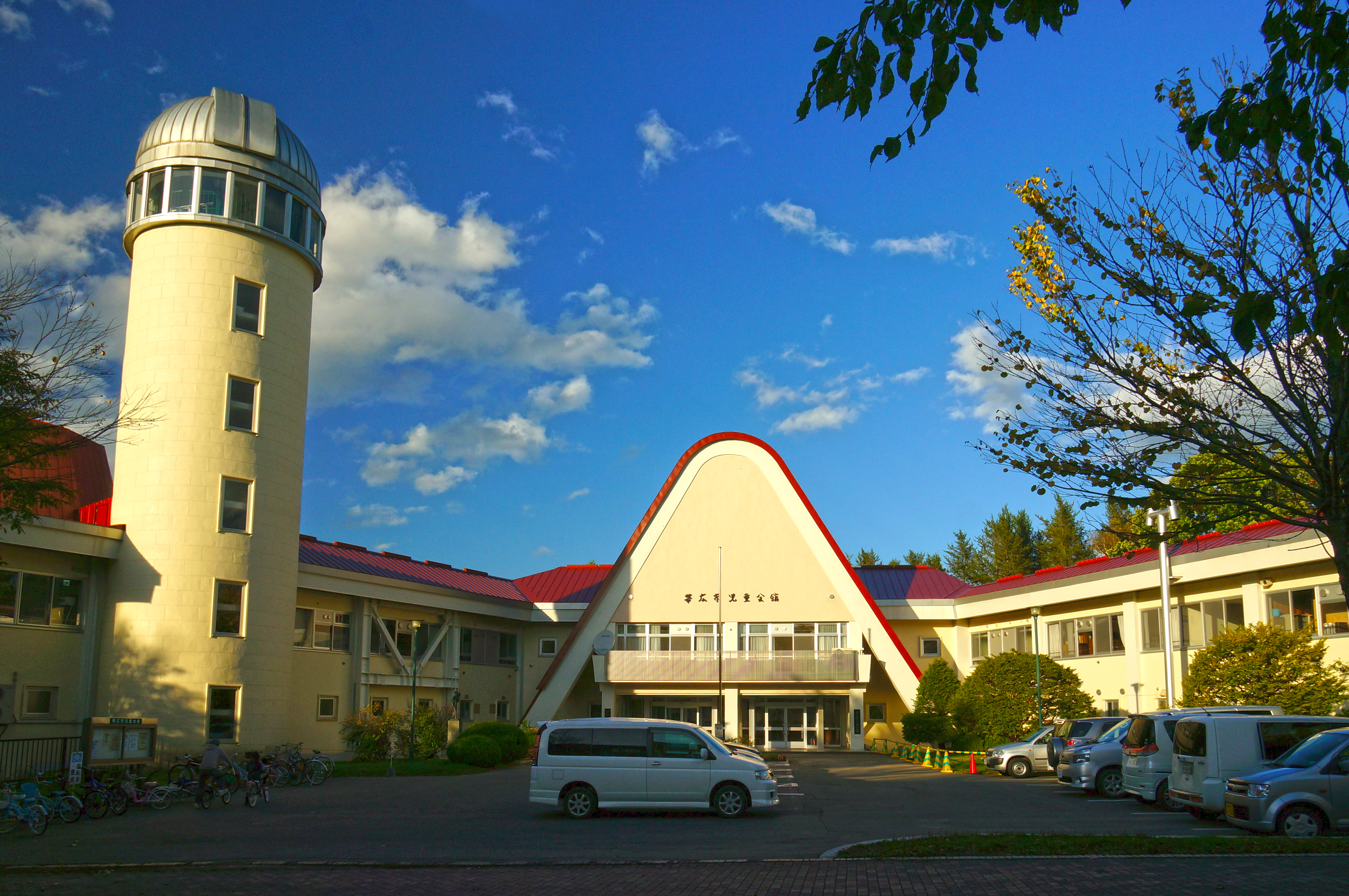 Obihiro Municipal Children Hall in Obihiro, Hokkaido prefecture, Japan.